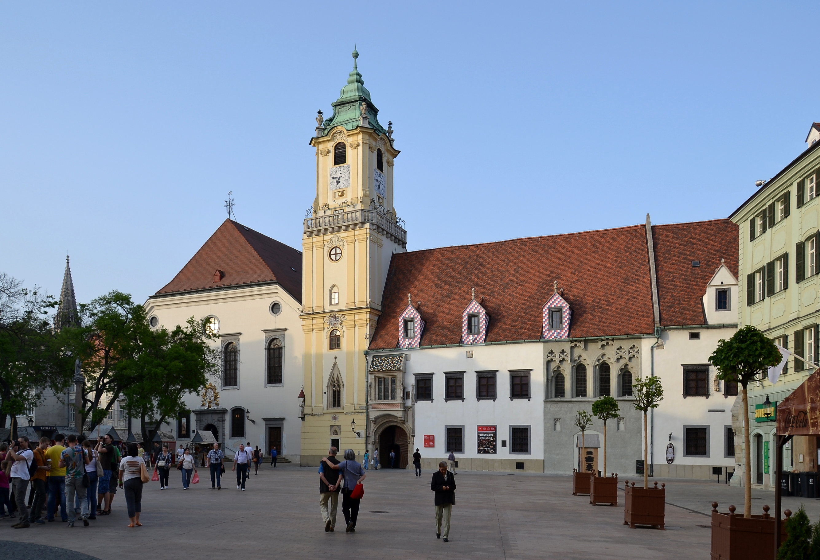 Bratislava (Pressburg, Pozsony) - market square